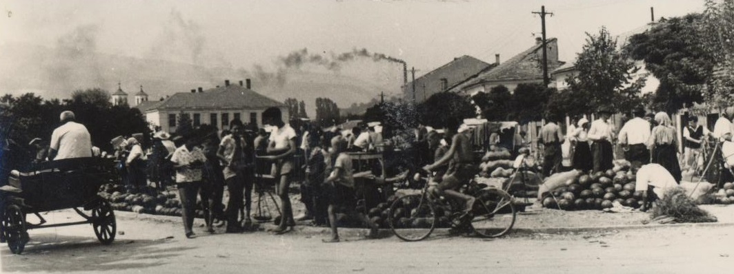 Market place in Tijabara, Pirot